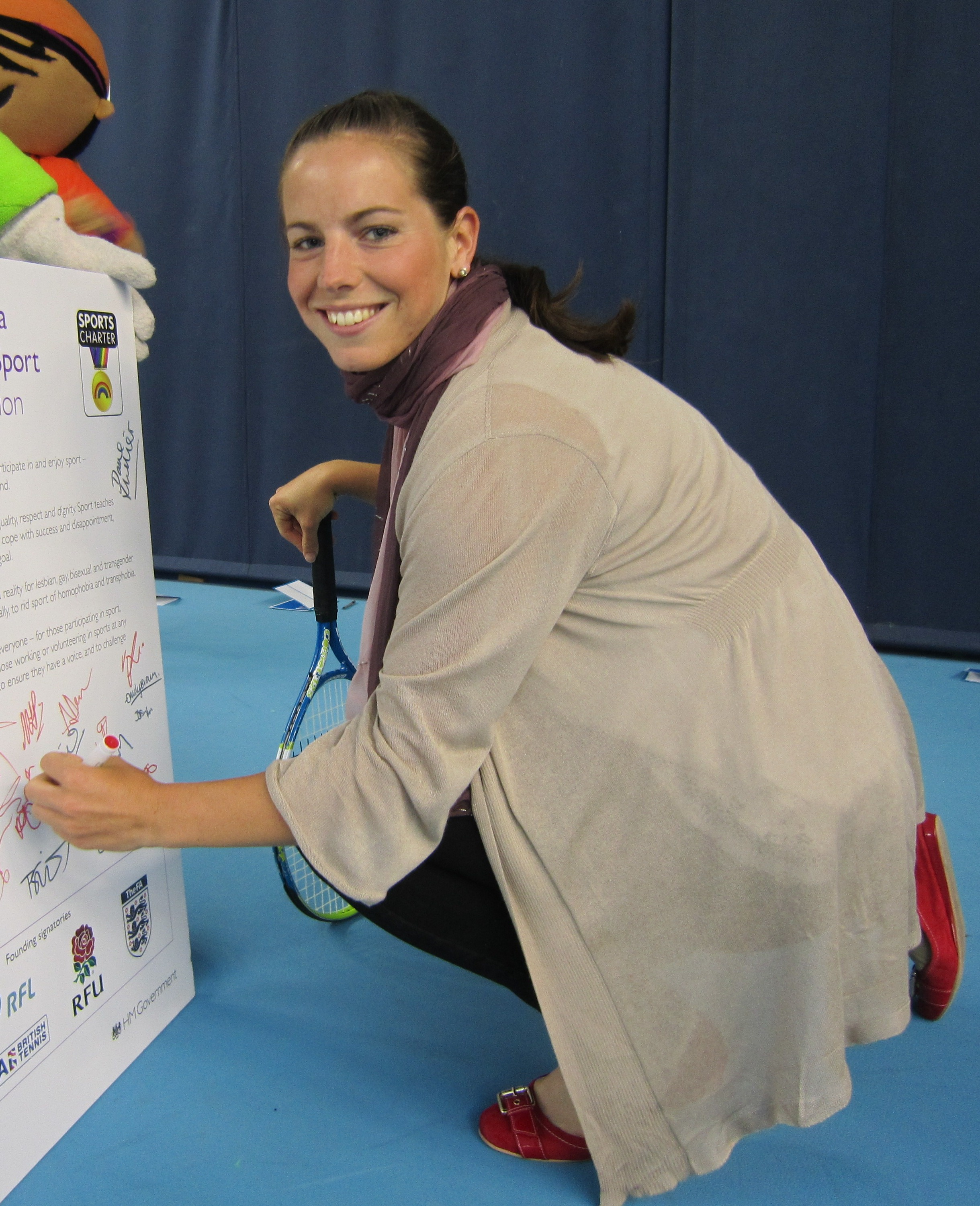 Former British player and top 100 player, now coaching